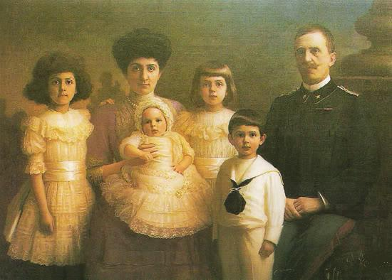 Italian royal family in 1908, painted by Petar Lubarda in Cetinje during the state visit of king and queen of Italy in Montenegro. From left: HRH princess Yolanda; HM Queen Elena, princess of Montenegro with HRH princess Jane; HRH princess Mafalda, HRH crown prince Umberto & HM king Victor Emanuel III